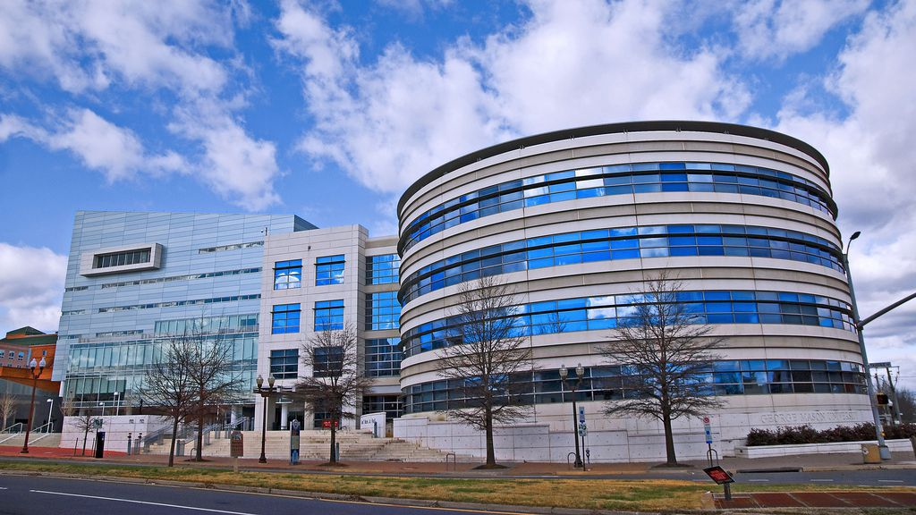 Antonin Scalia Law School, George Mason University